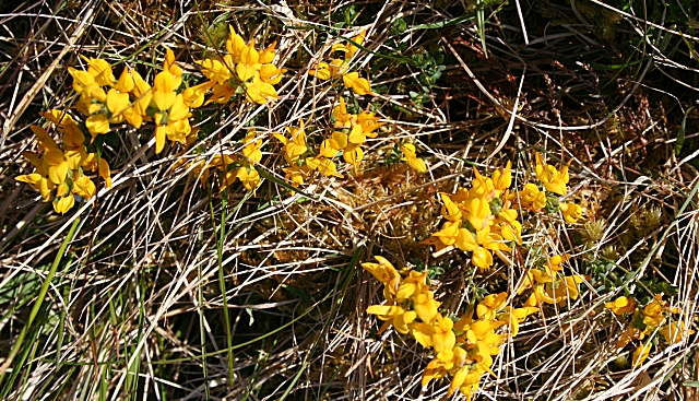 Petty Whin (Genista anglica) This low-growing plant is related to the more conspicuous broom and whin (gorse).